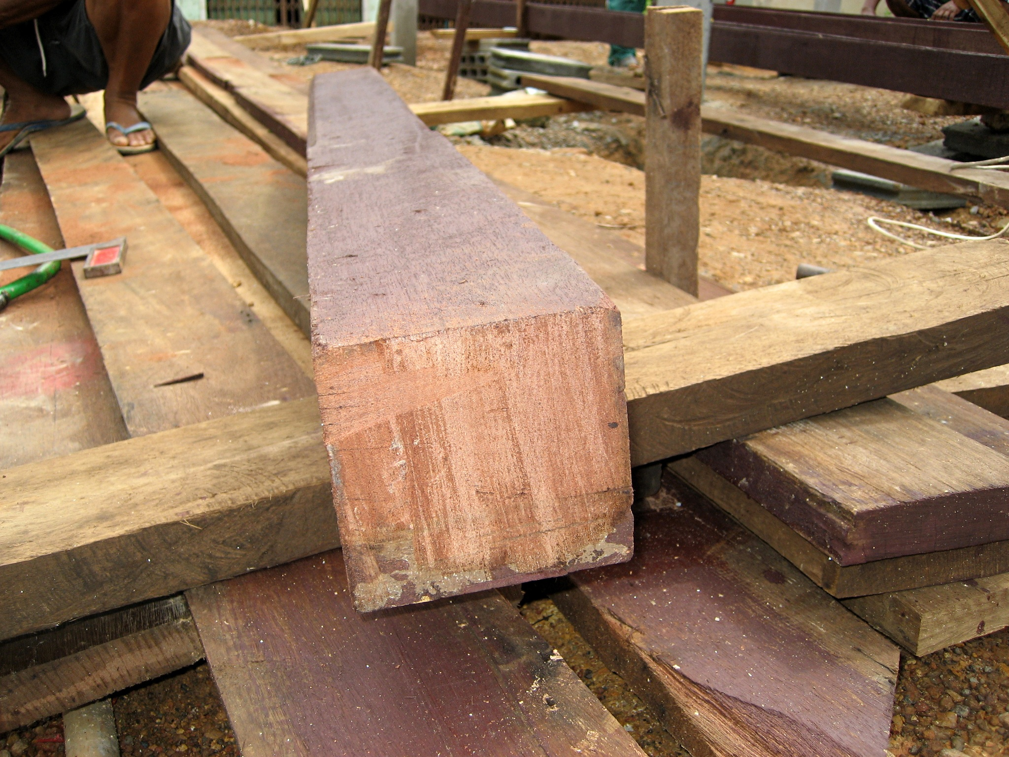 A Thai house building project on its way. Recycled timber salvaged from a demolished house is prepared for a new roof. A freshly cut beam of wood shows it's sound inside.